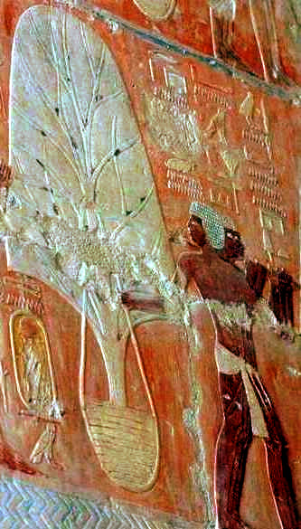 Photograph of a portion of a painted relief showing trees being transported from Punt to Egypt for transplantation; from Deir el Bahari in the Mortuary Temple of Hatshepsut, a pharaoh of the eighteenth dynasty of Ancient Egypt reigning from c. 1479 to 1458 BC